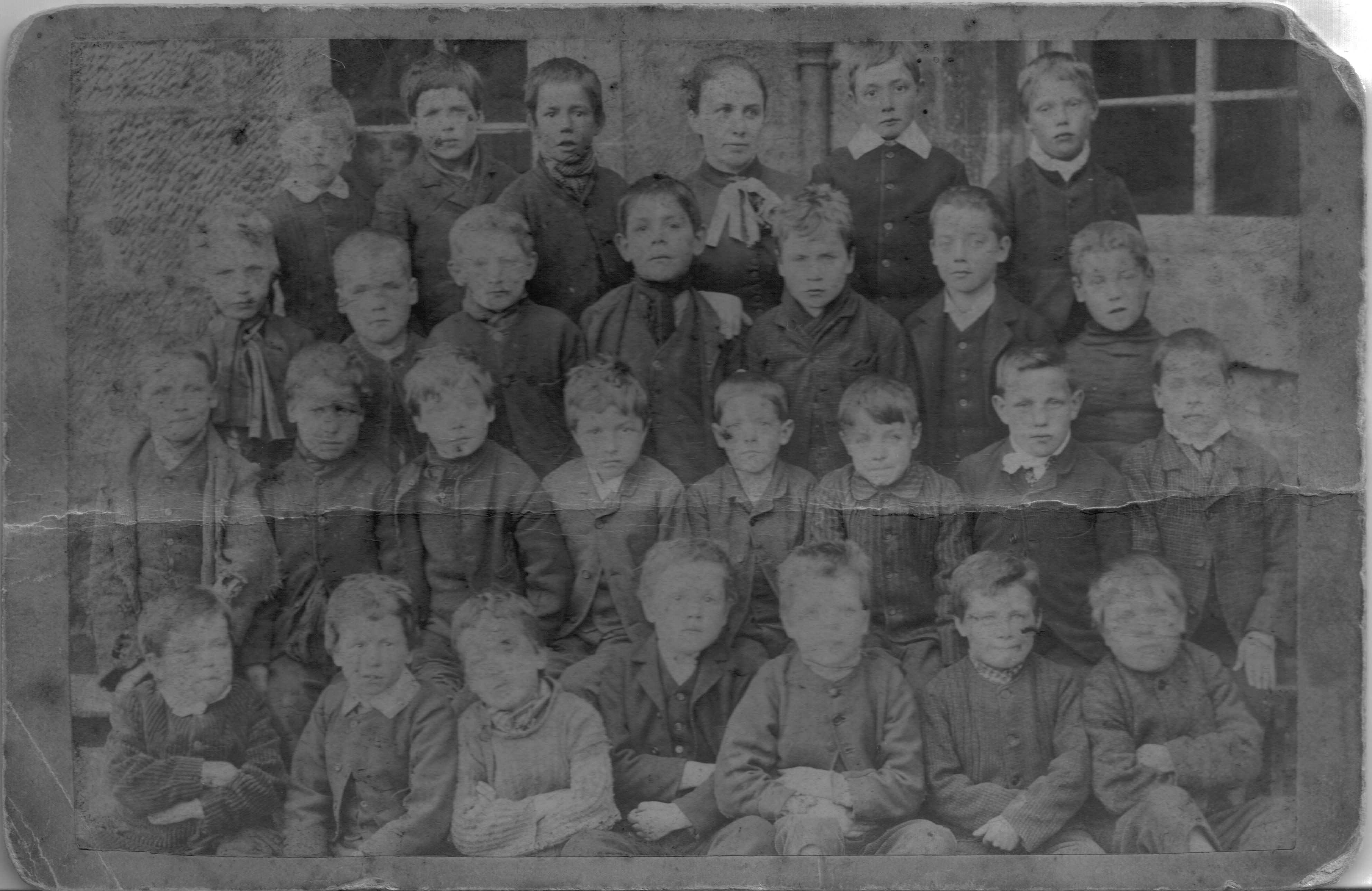 The pupils of Fergushill Primary School, Kilwinning, North Ayrshire, Scotland.